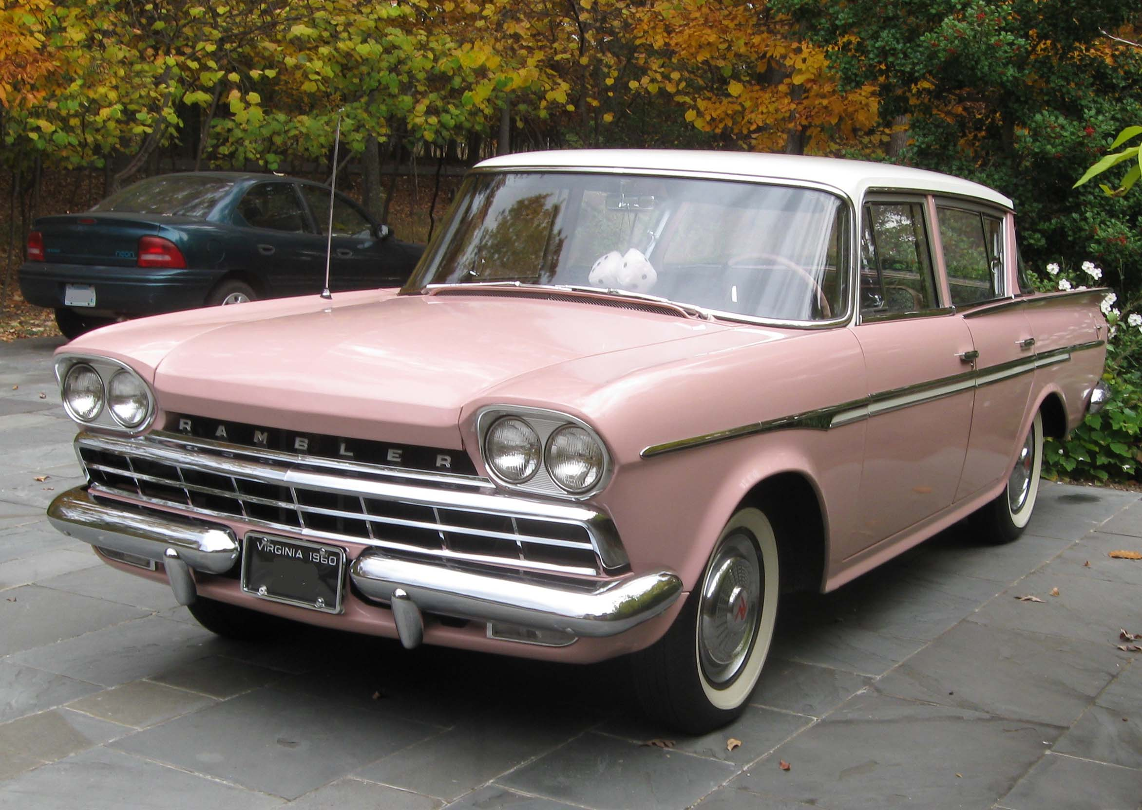 1960 Rambler Six 6015-2 photographed in Centreville, Virginia, USA.